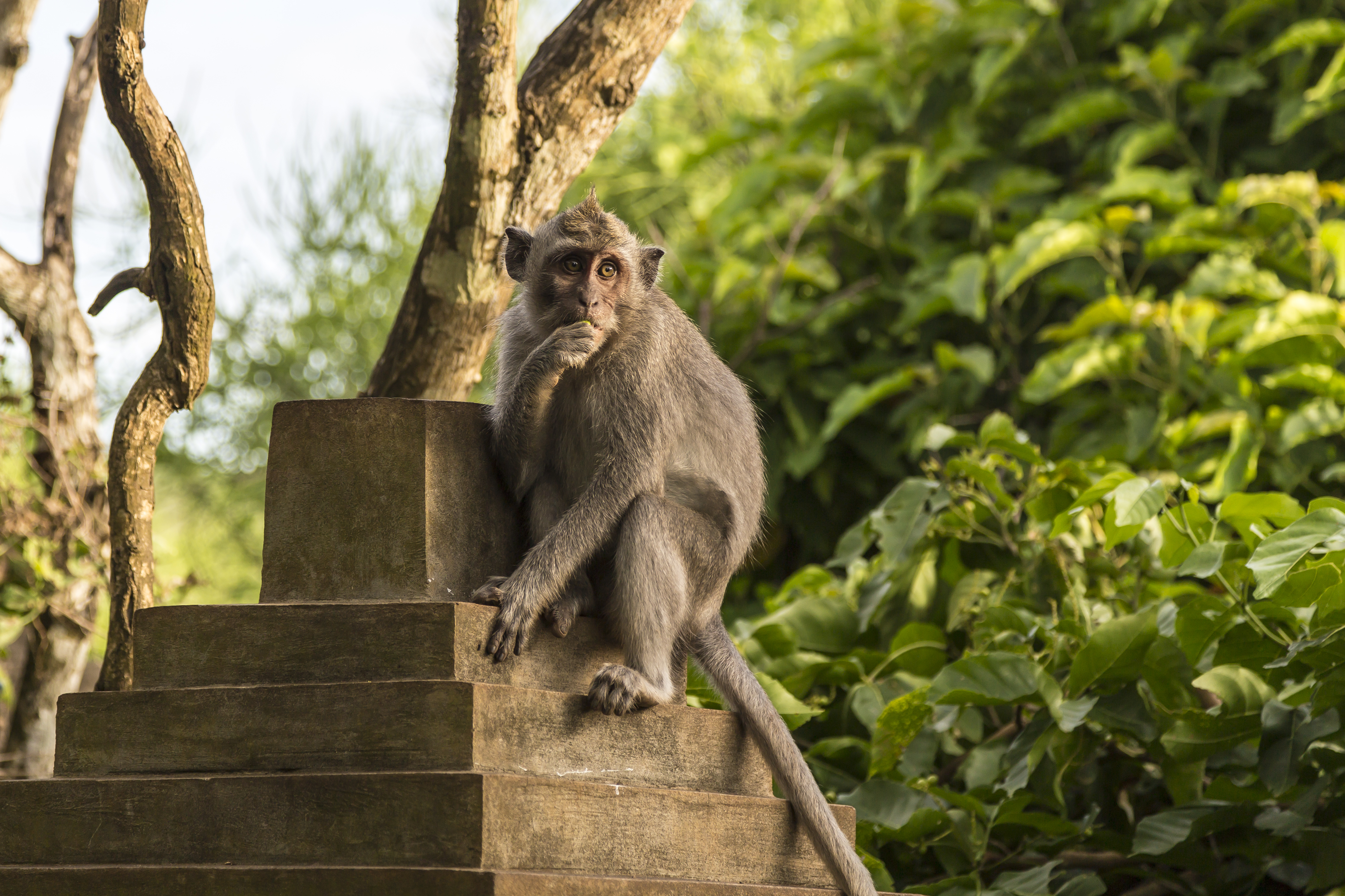 Kuta, Bali, Indonesia: Monkeys at the cliffs of Pura Luhur Uluwatu